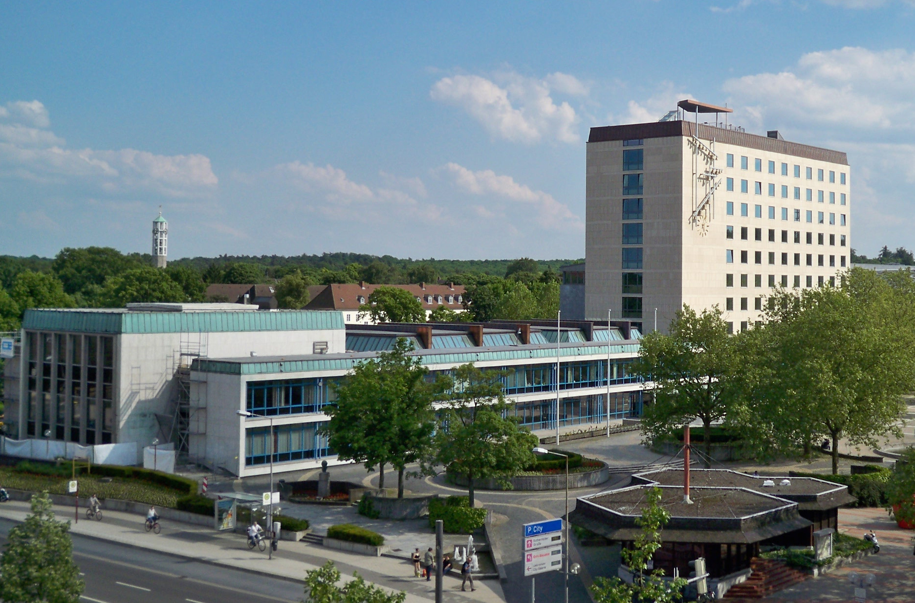 Wolfsburg, Lower Saxony, Town Hall, main building (Rathaus A)